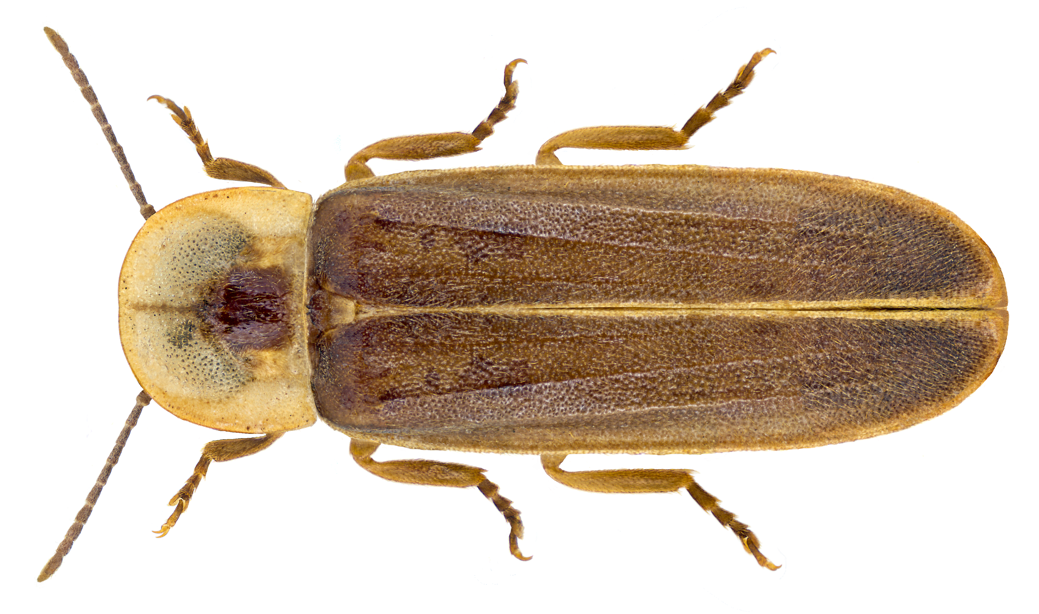 Family: Lampyridae Size: 12,0 mm (10,0 to 12,0 mm) Distribution: Europe Ecology: snail-eating larvae, adult with light organs on abdomen Location: Germany, Bavaria, Upper Franconia, Kulmbach/Forstlahm leg det. U.Schmidt, 13.VII.1975 Photo: U.Schmidt, 2016